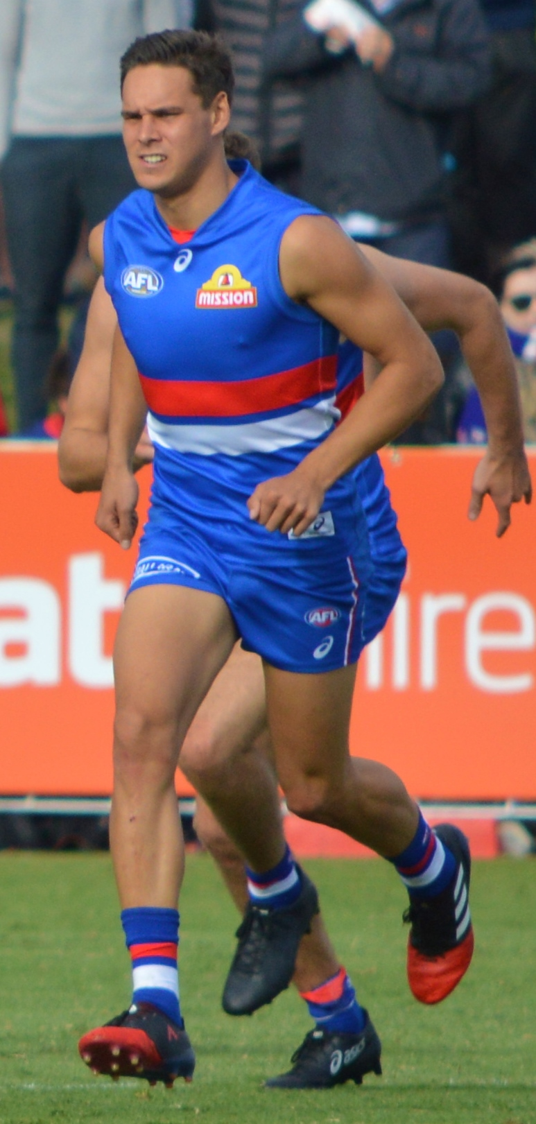 Lukas Webb warming up prior to a pre-season match in February 2017